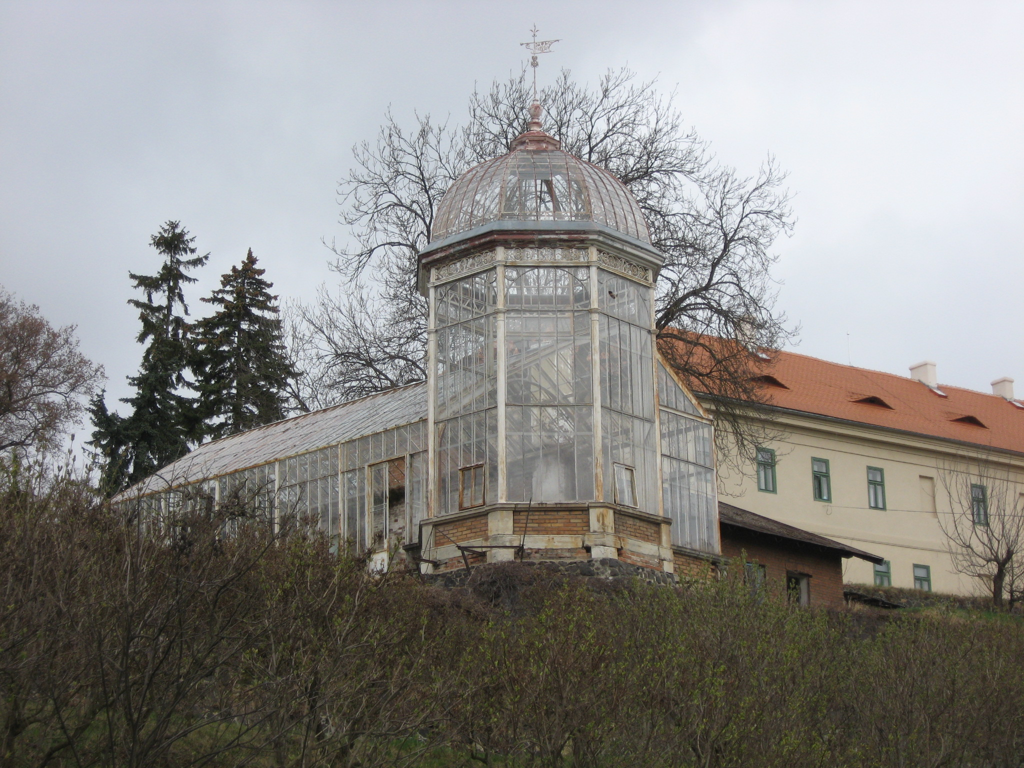 Greenhouse in garden of the chateau Valeč, (Karlovy Vary District, Czech Republic)